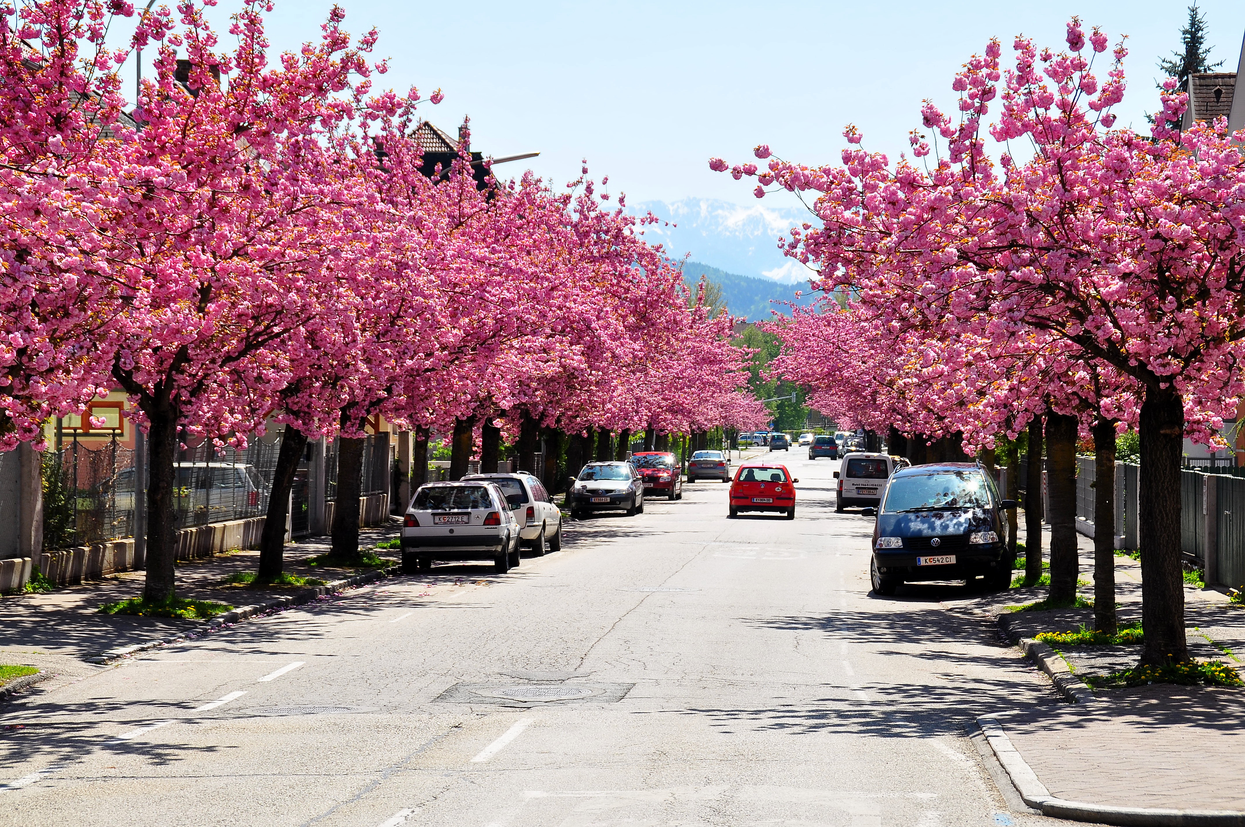 Ferdinand Jergitsch Strasse with blooming Japanese cherry-trees in spring, situated in the 8th district “Villacher Vorstadt” of the Carinthian capital Klagenfurt on the Lake Woerth, Carinthia, Austria